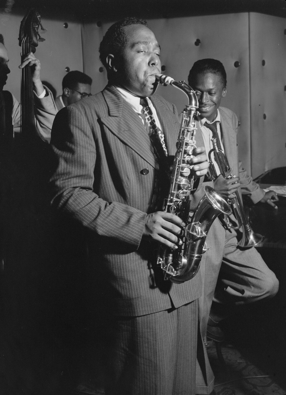 Portrait of Charlie Parker, Tommy Potter, Miles Davis, Dizzy Gillespie and Max Roach, Three Deuces, New York, N.Y.